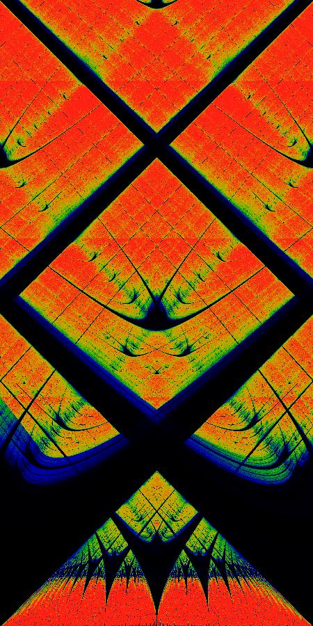 Arnold tongues found in the circle map.